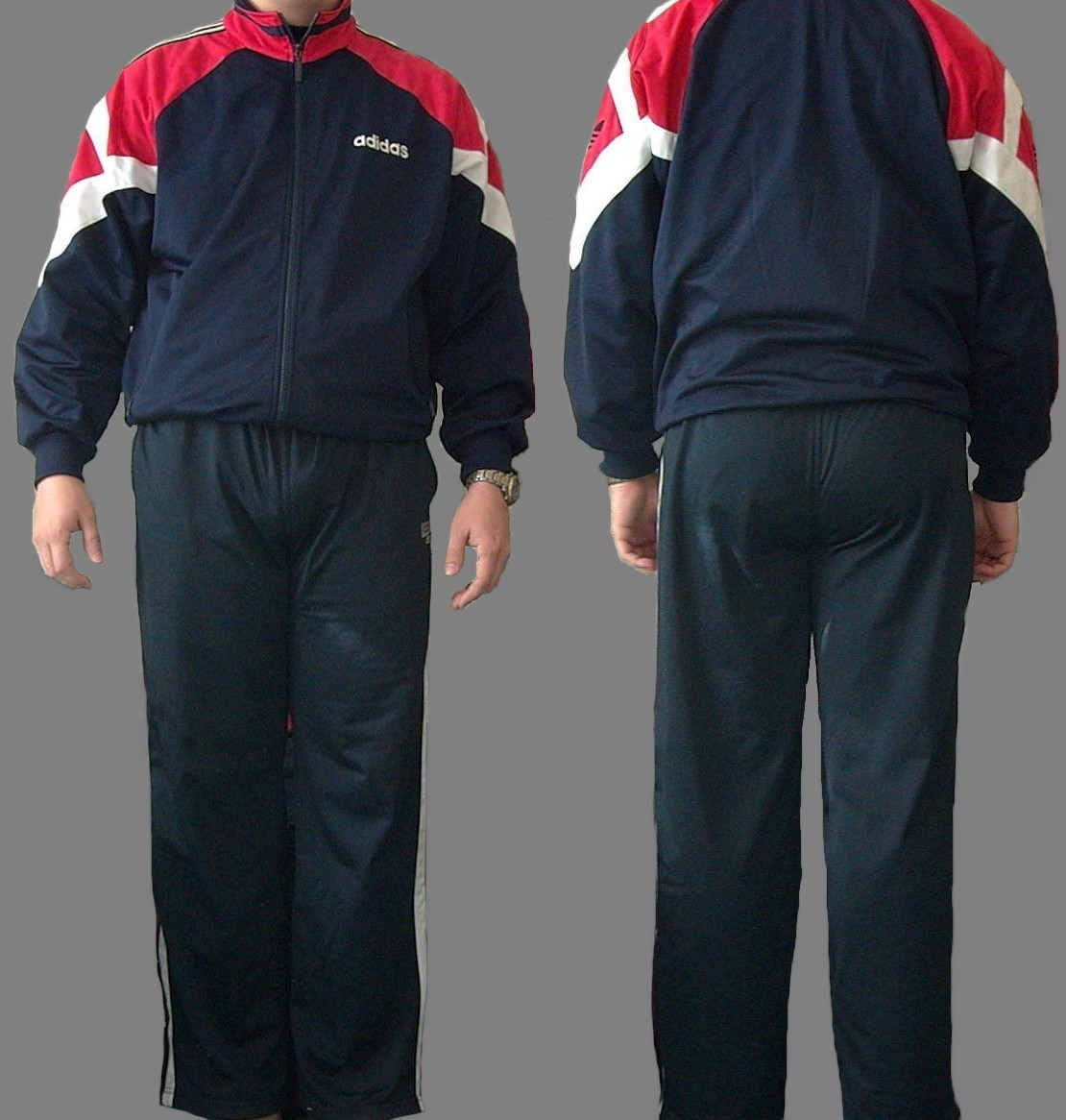 Man wearing Adidas sports suit. Own image.